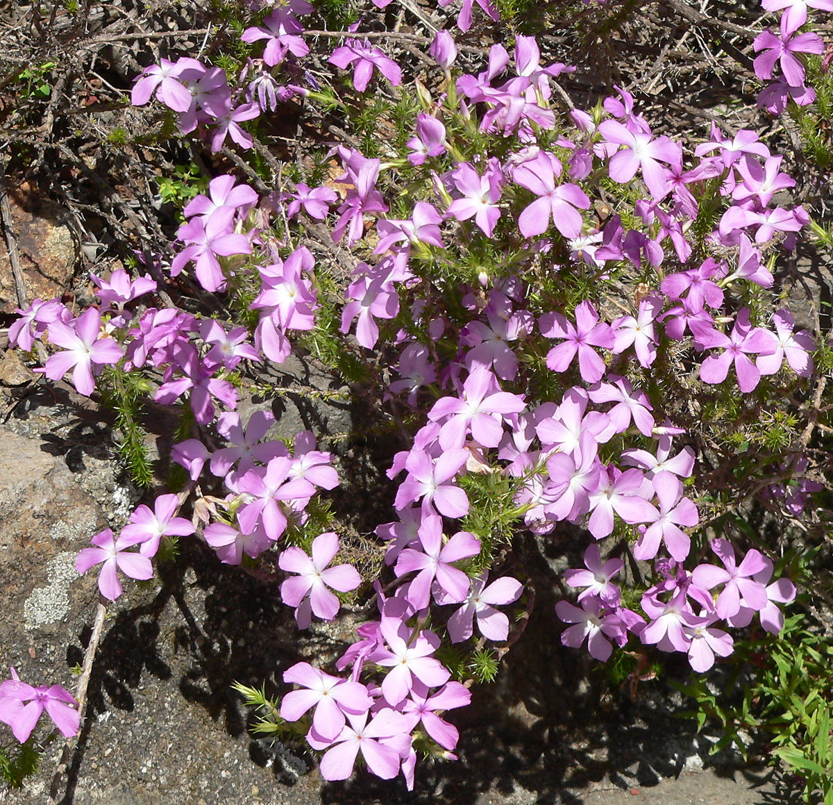 Photo of Leptodactylon californicum at the Regional Parks Botanic Garden, Berkeley, California